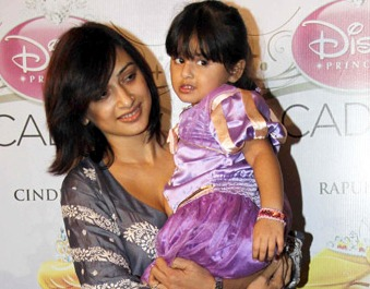 Gauri Pradhan Tejwani at the launch of 'Disney Princess Academy'